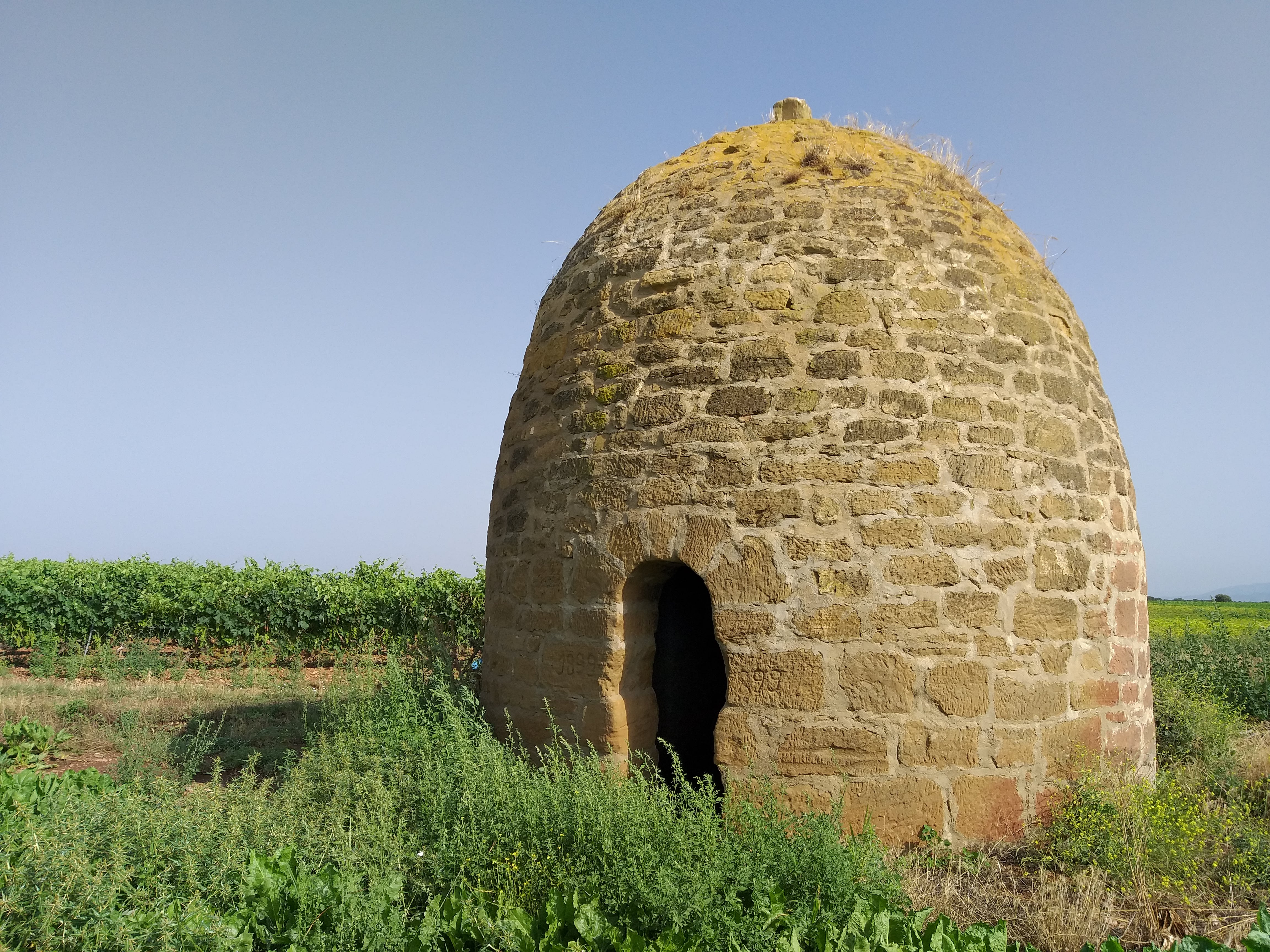 Windbreaker